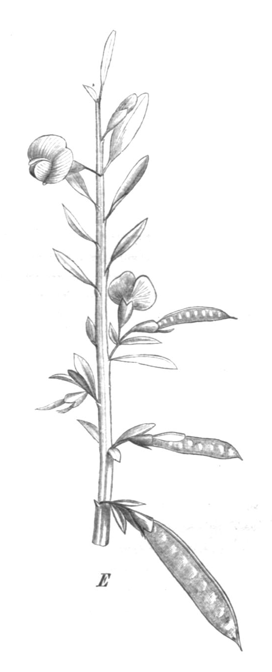 Illustration from book